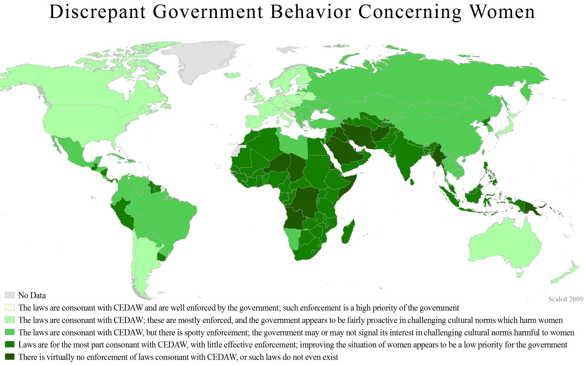 Map of countries showing CEDAW enforcement rate.